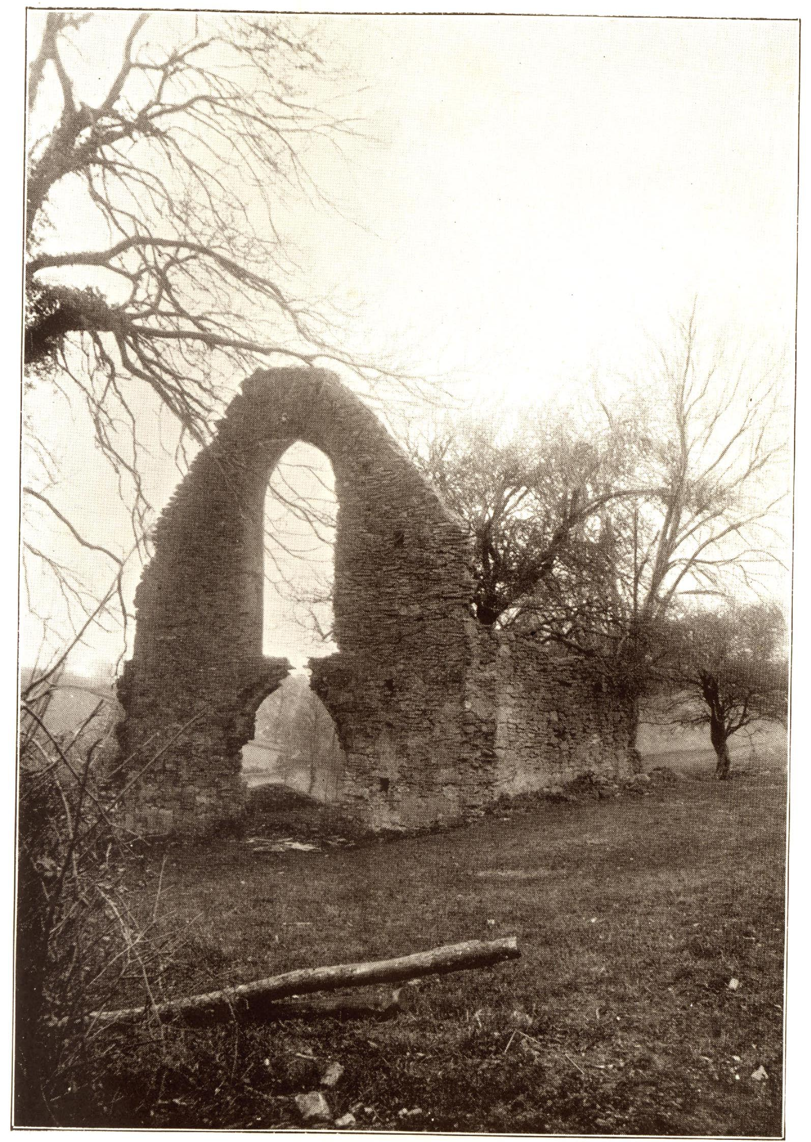 Photograph of the ruined chapel at Adscombe, Somerset in about 1903